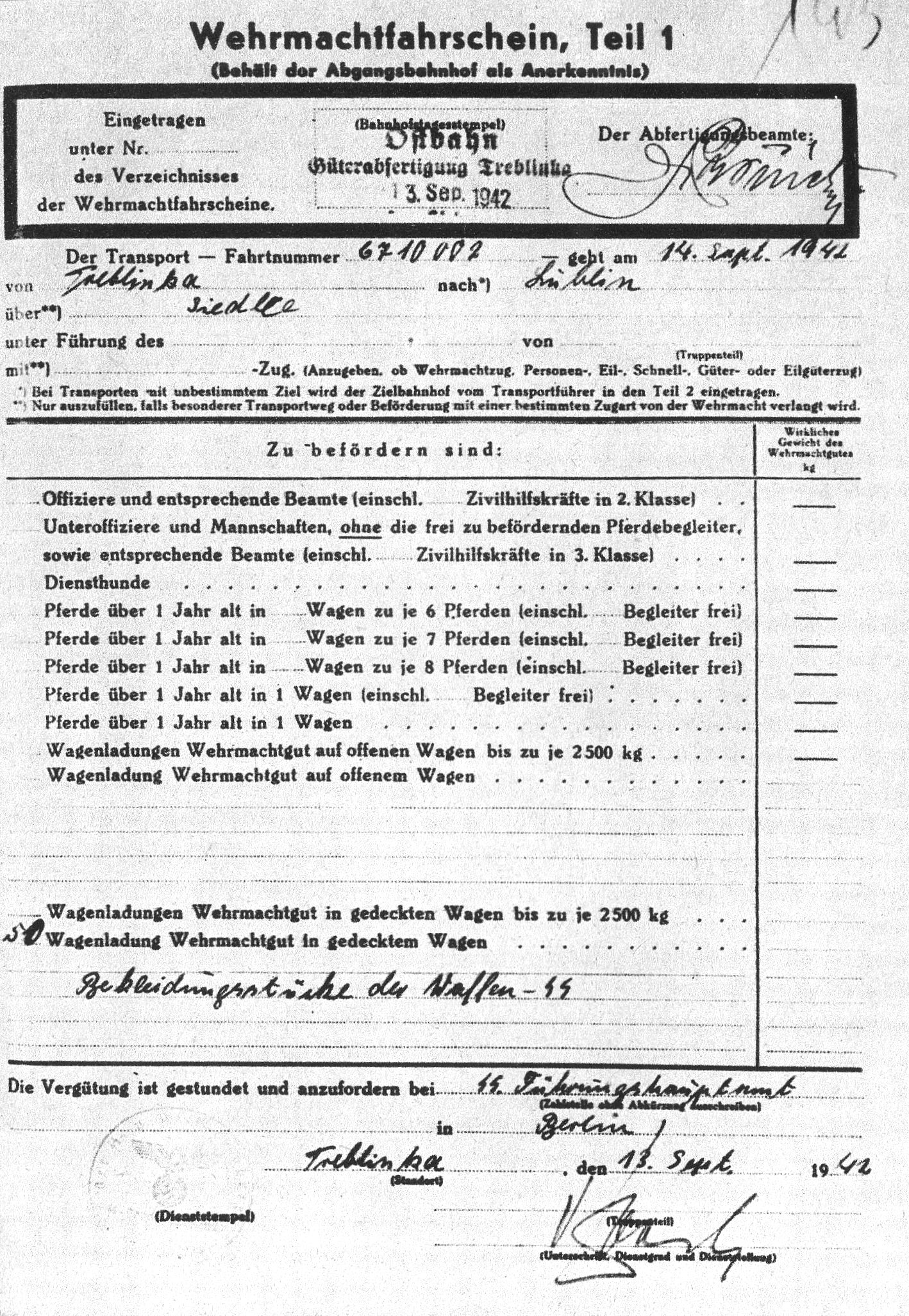 Waybill regarding the transport of clothes which belonged to the murdered Jews from Treblinka to Lublin